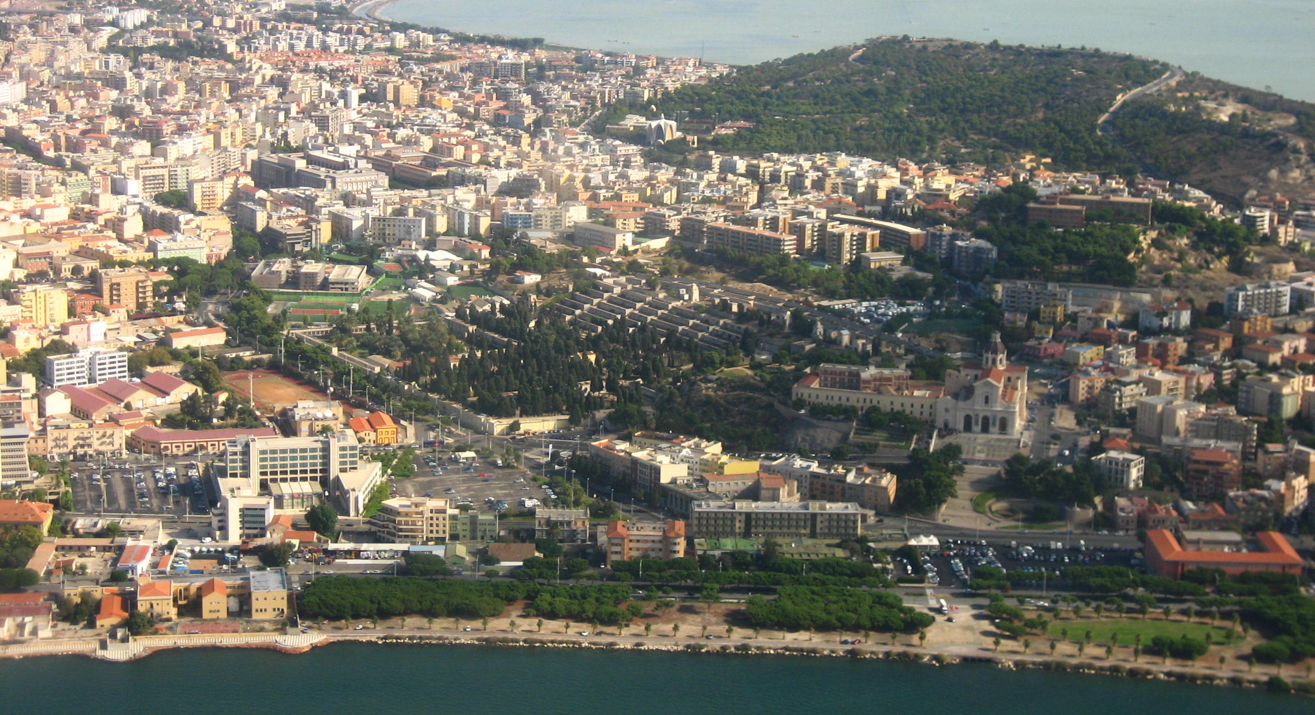 Bonaria Monte Urpinu Cagliari